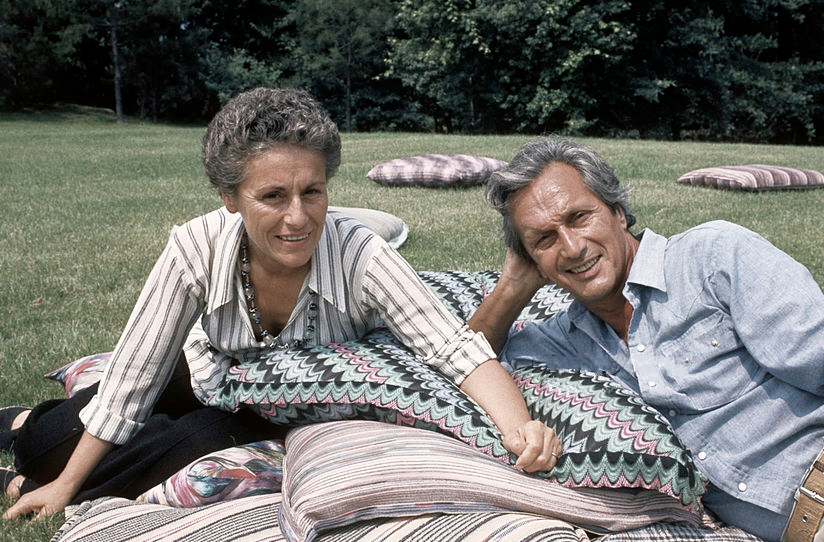 Italian fashion designer Ottavio Missoni and his wife Rosita (née Jelmini) sitting on the lawn of their mansion. They are resting on big pillows made from their fabrics. Sumirago (Varese), Italy, July 1975.